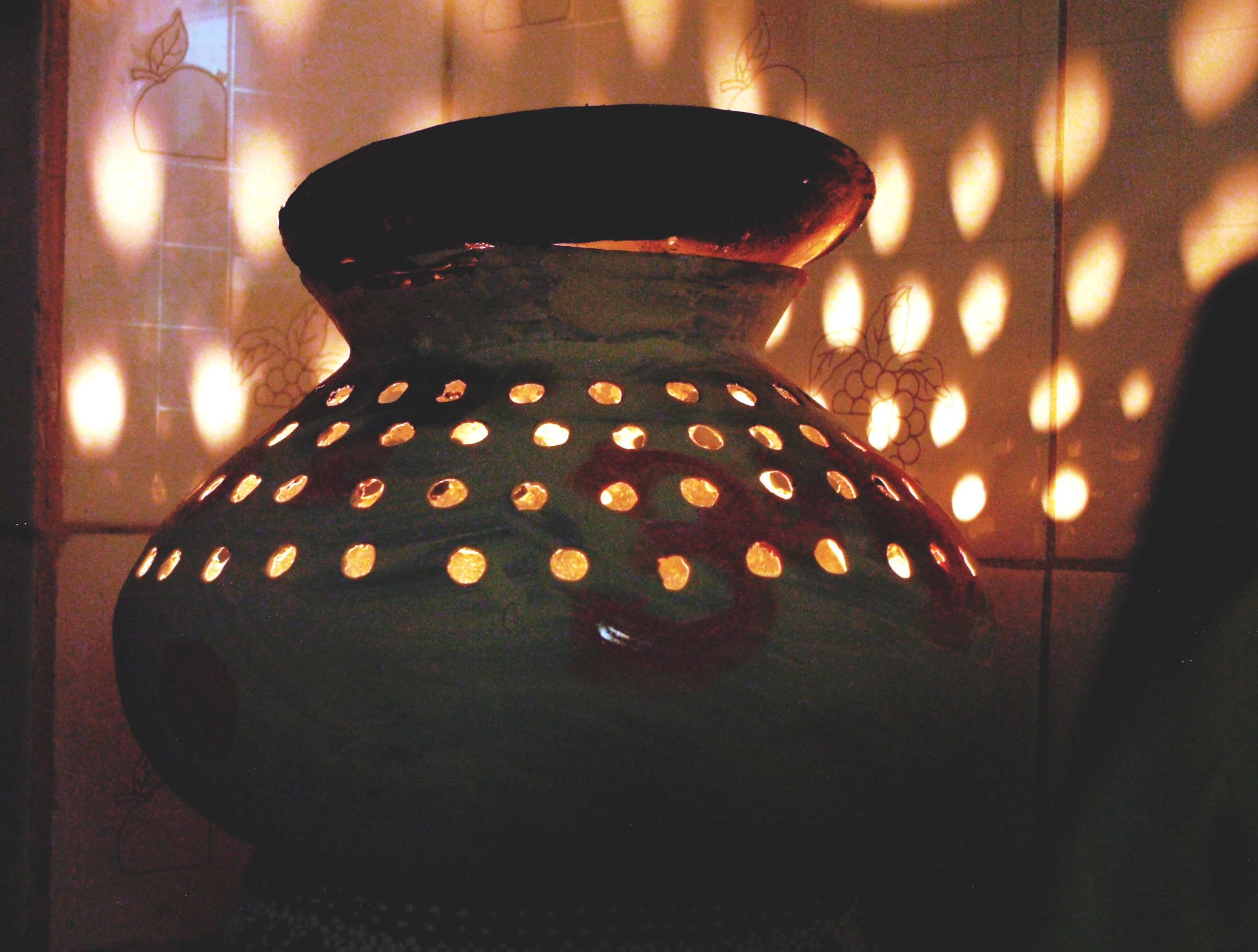 Gujarati garbo or garba, a pot with many holes used as a lantern during the festival of navaratri.